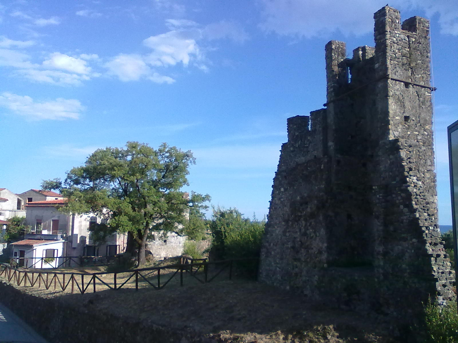 Defensive wall of Policastro